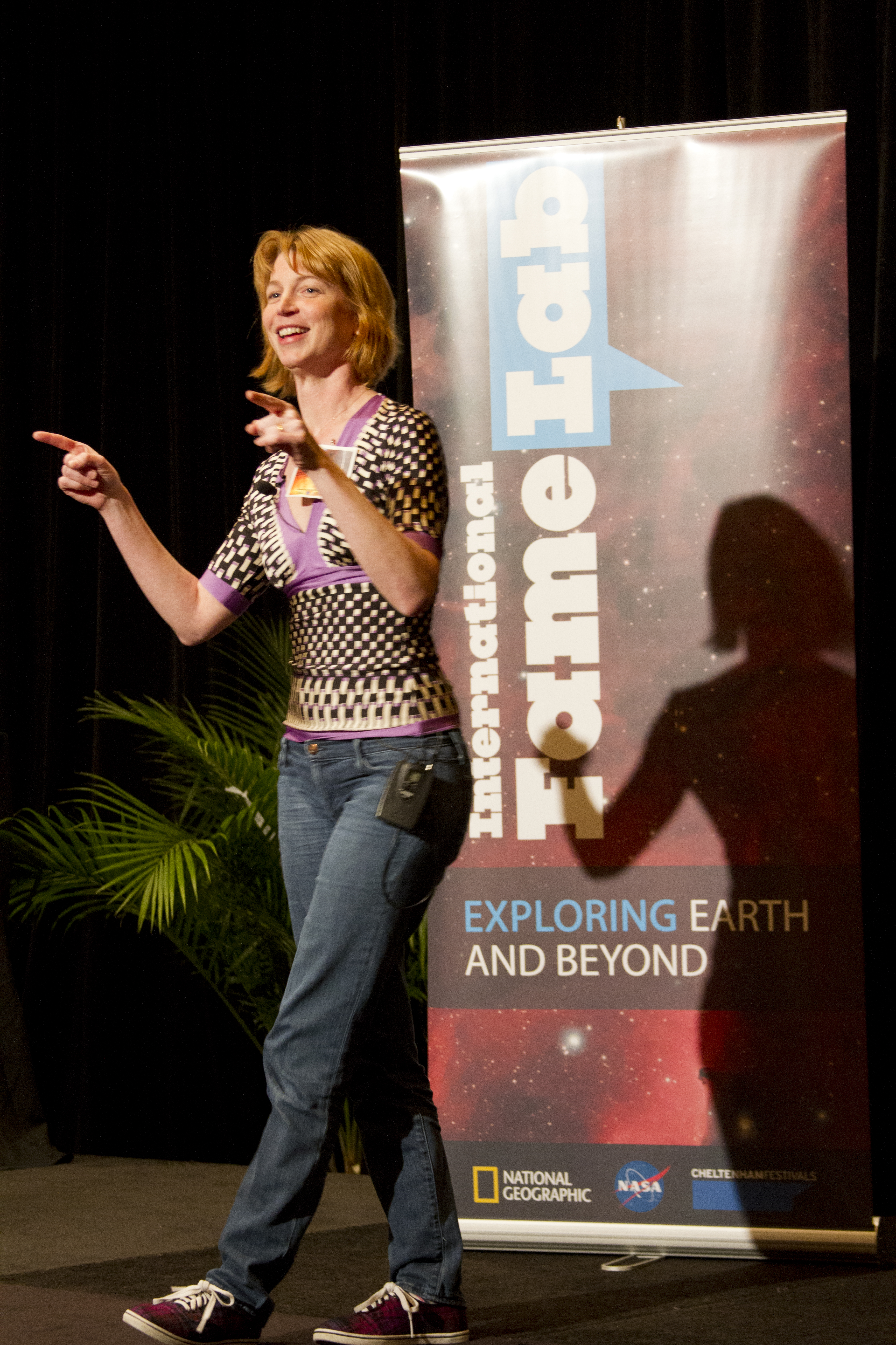 Emily Lakdawalla was the halftime entertainment at the FameLab event at the Lunar and Planetary Science Conference in 2013. → This file has an extracted image: File:Emily Lakdawalla at FameLab at LPSC 2013 cropped adjusted.jpg.